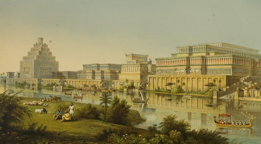 The Palaces at Nimrud Restored